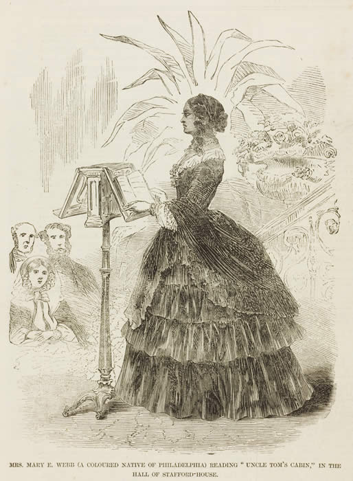 Engraved drawing of Mary E. Webb, captioned "Mrs. Mary E. Webb (a Coloured Native of Philadelphia) Reading Uncle Tom's Cabin, in the Hall of Stafford-House"